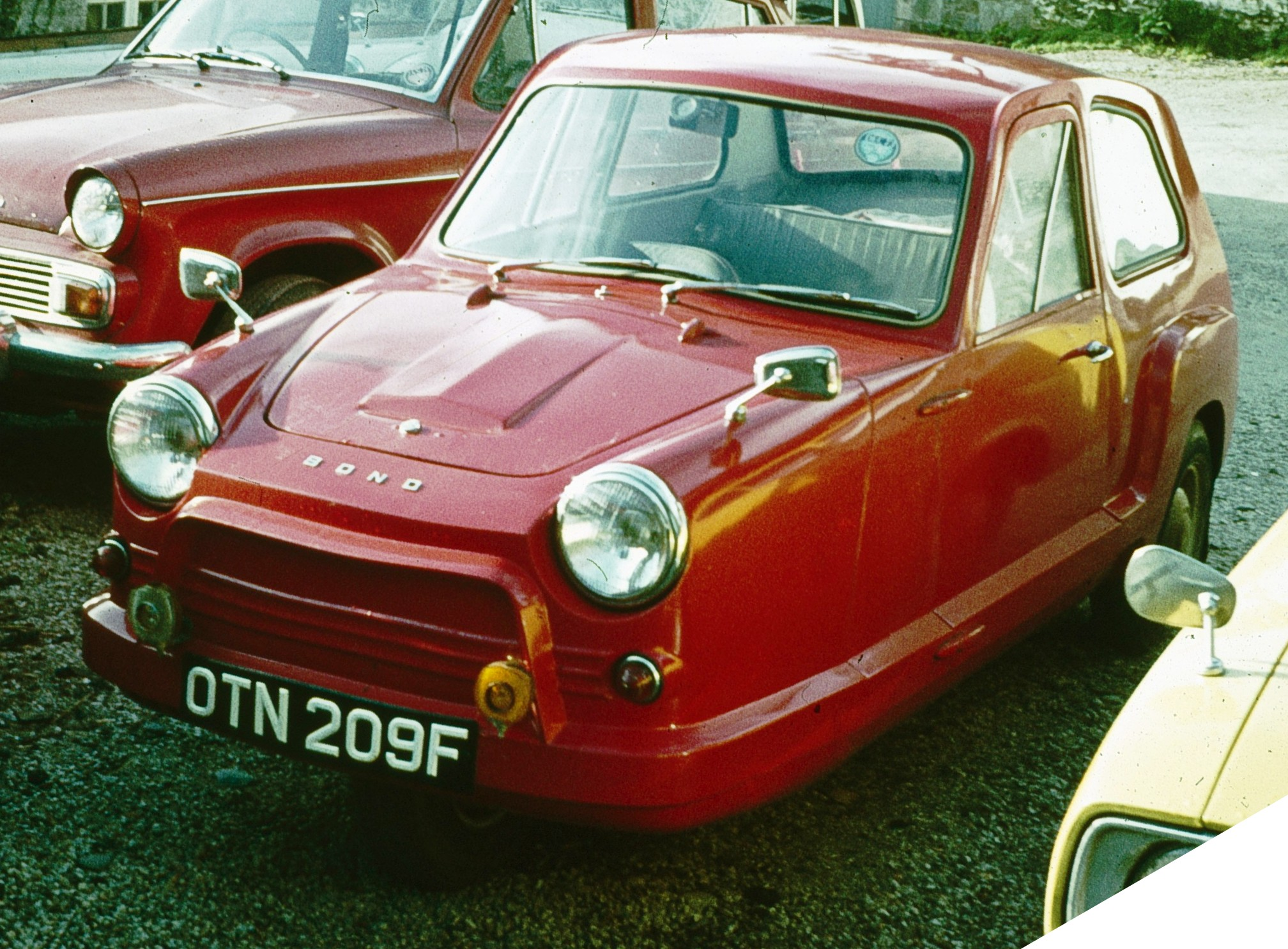 Bond 875 photographed in England